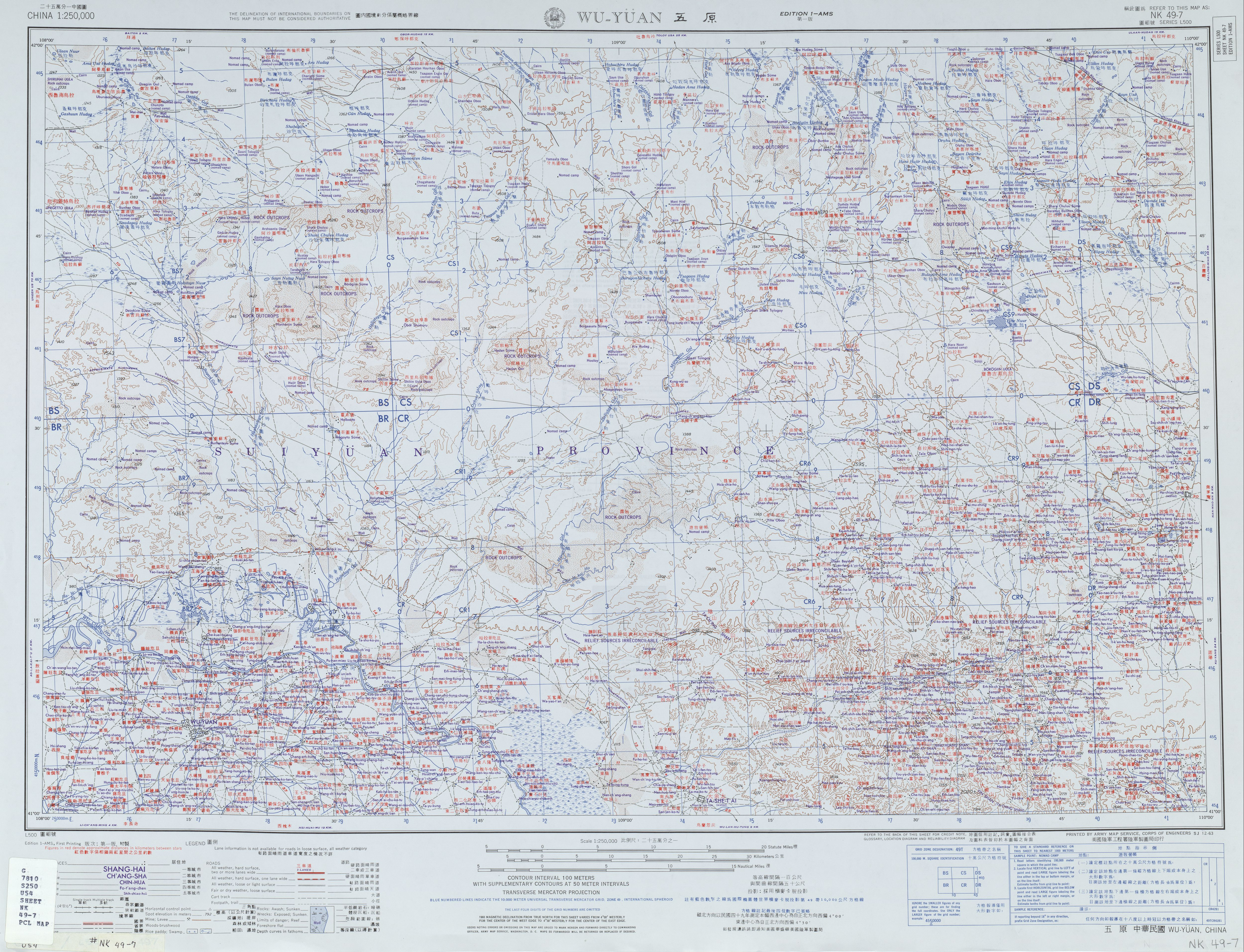 China AMS Topographic Maps